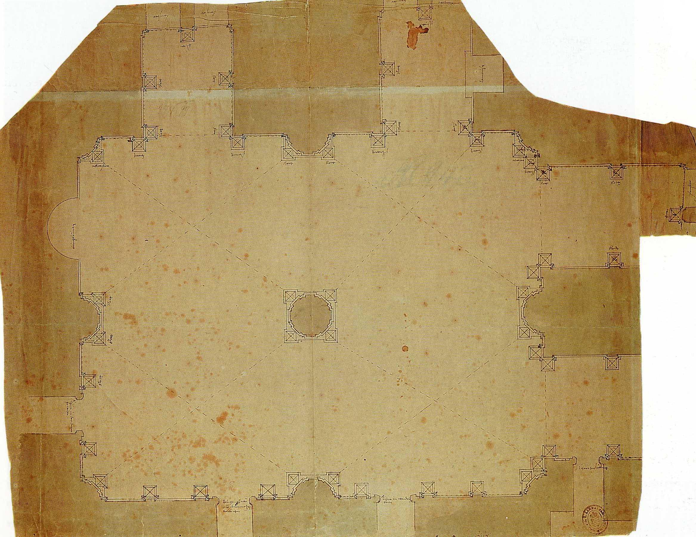 Erstes Belvedere